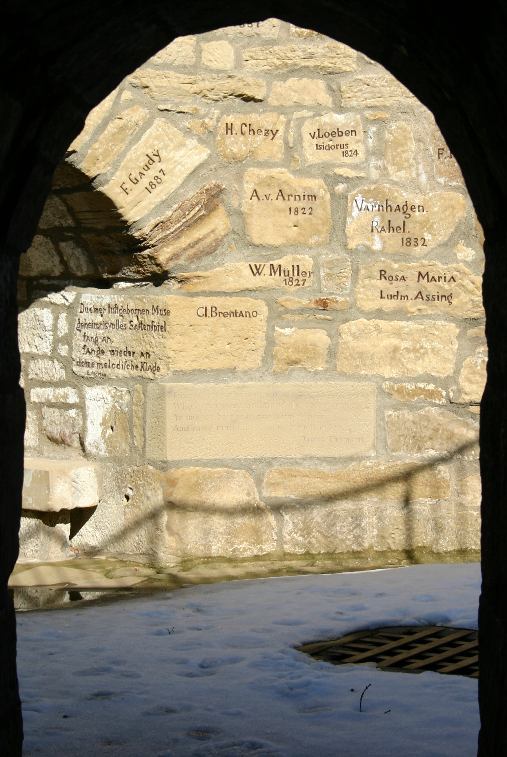 Weibertreu castle in Weinsberg, interior of thick tower with stones commemorating famous 19th century visitors